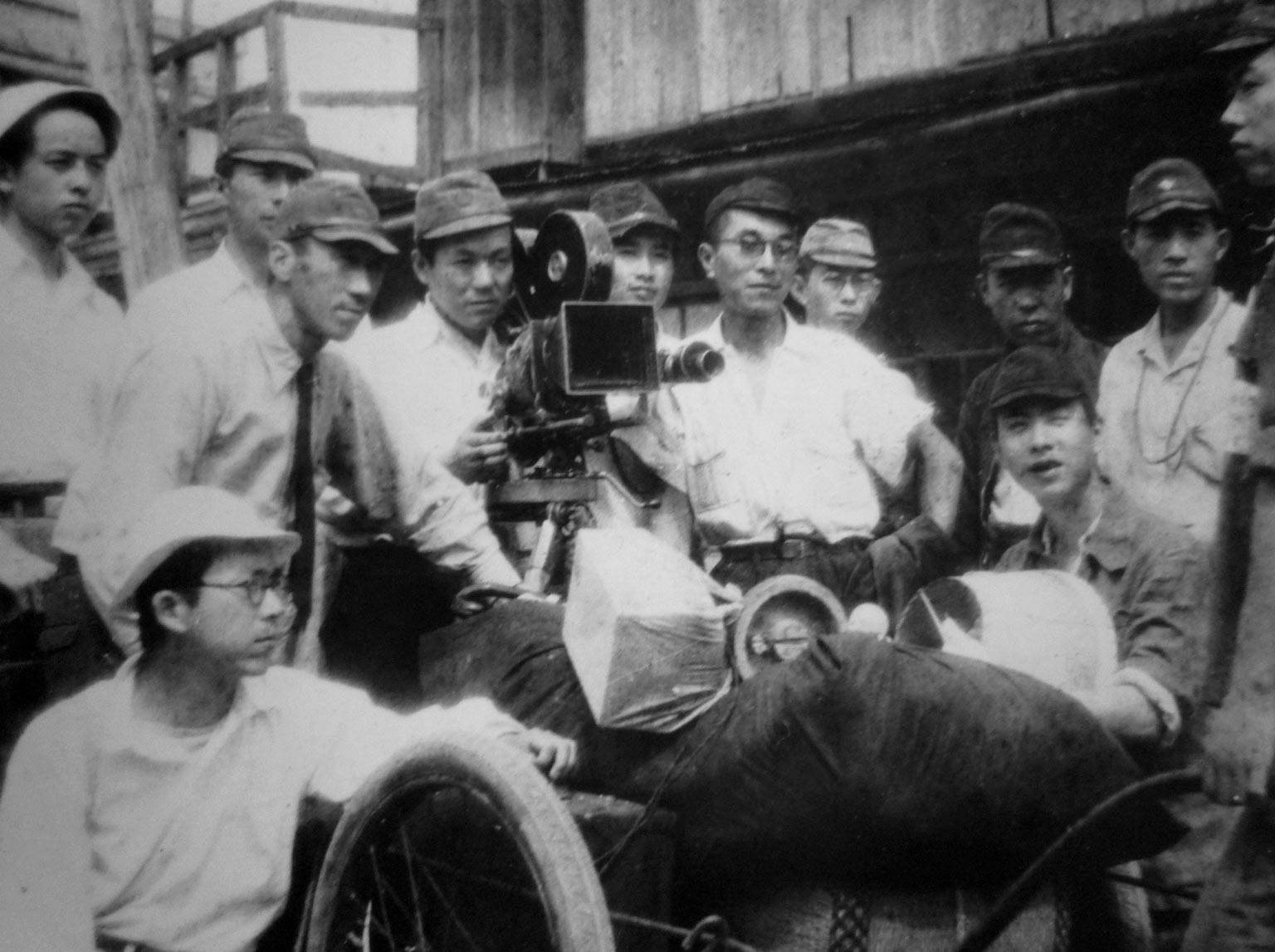 The Girls of Izu (1945)